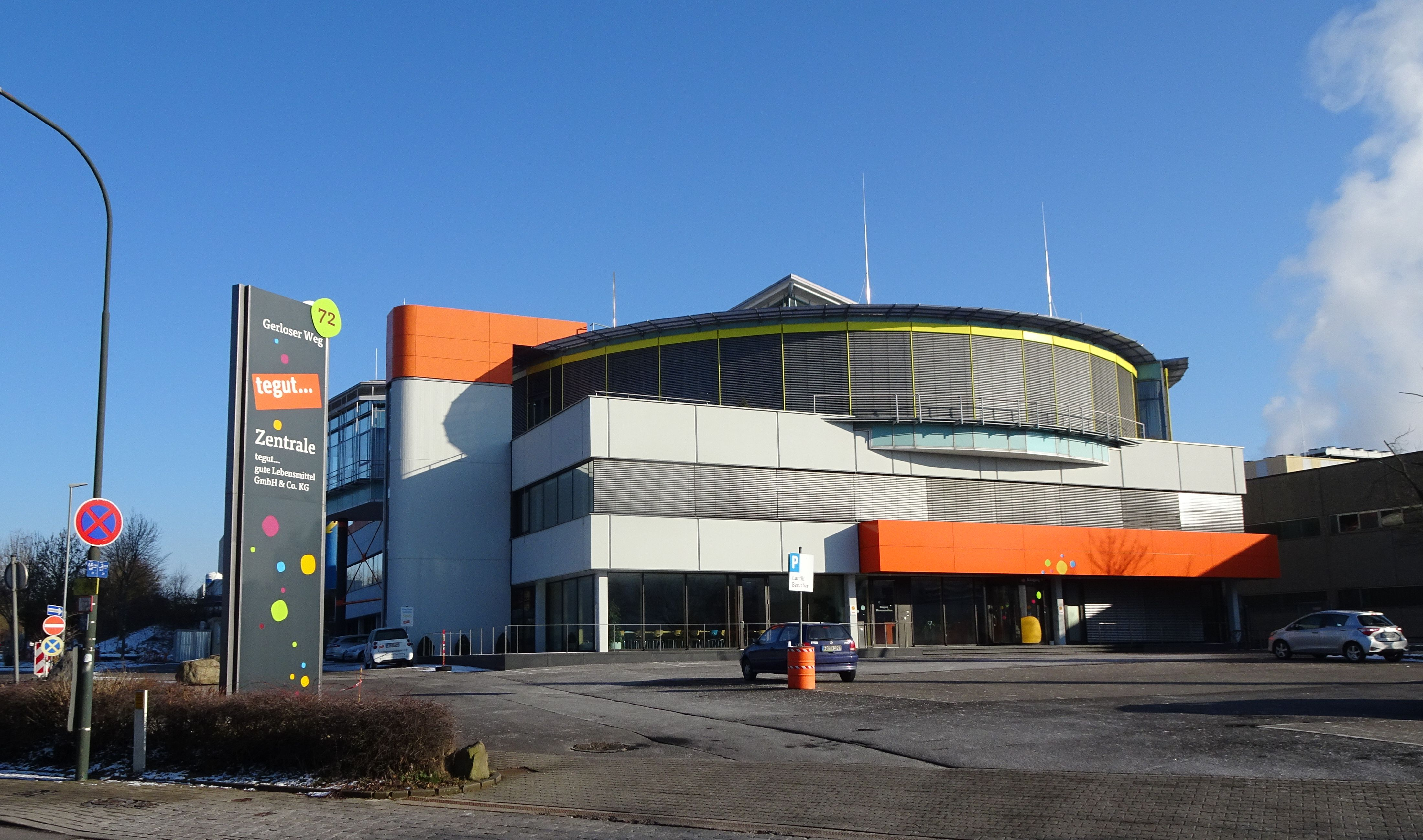 office building in Fulda, Germany